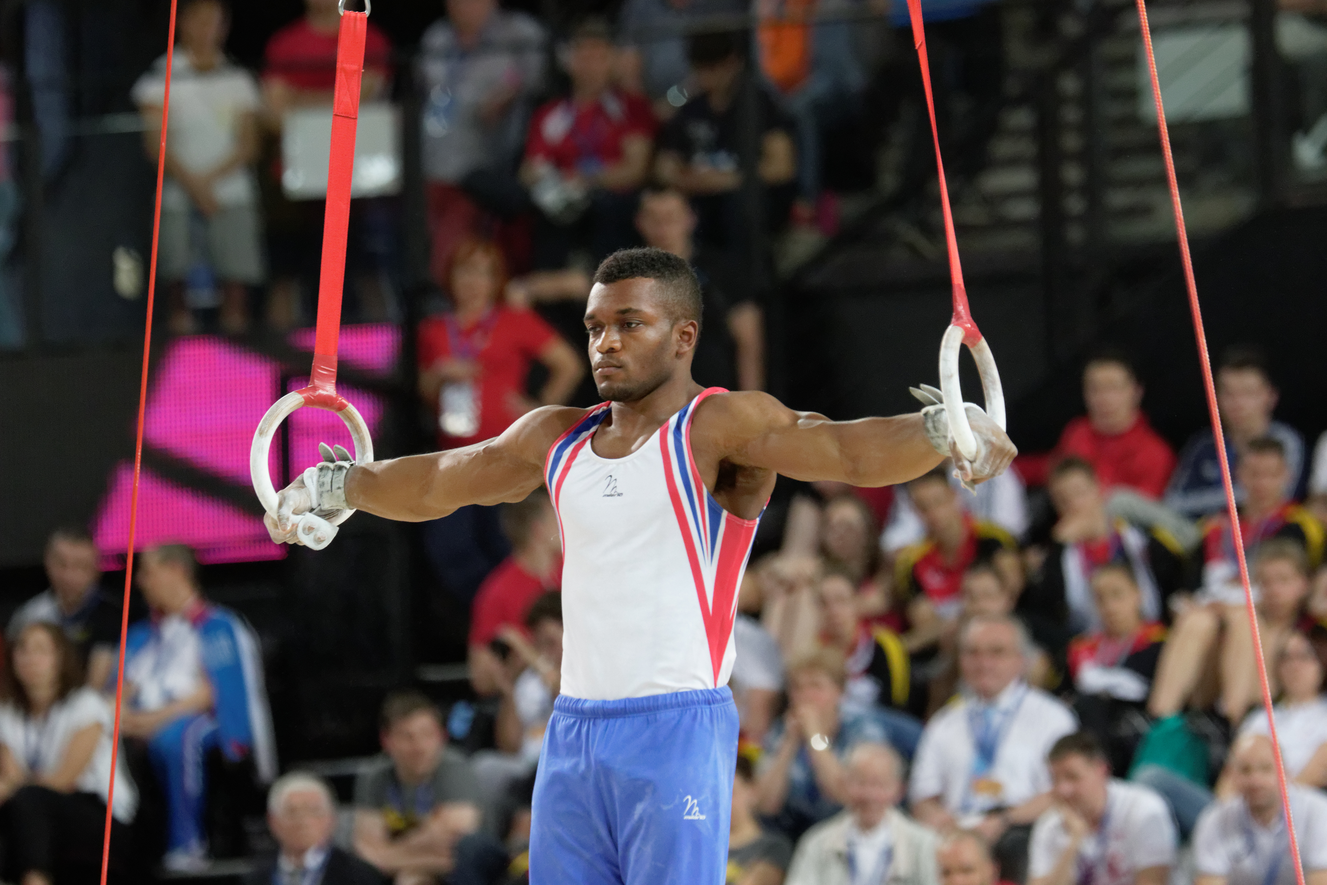 2015 European Artistic Gymnastics Championships. Rings.